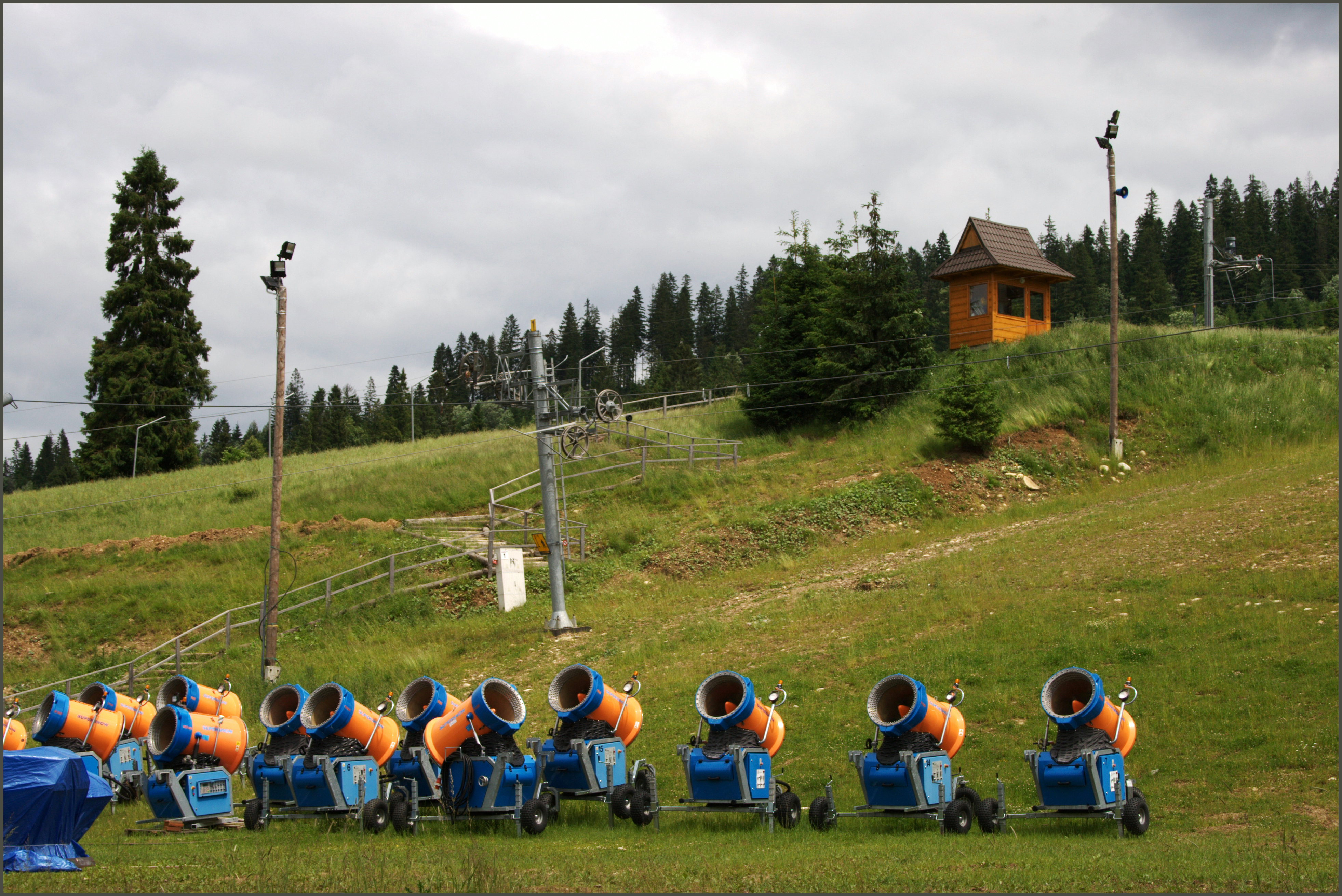 waiting for winter